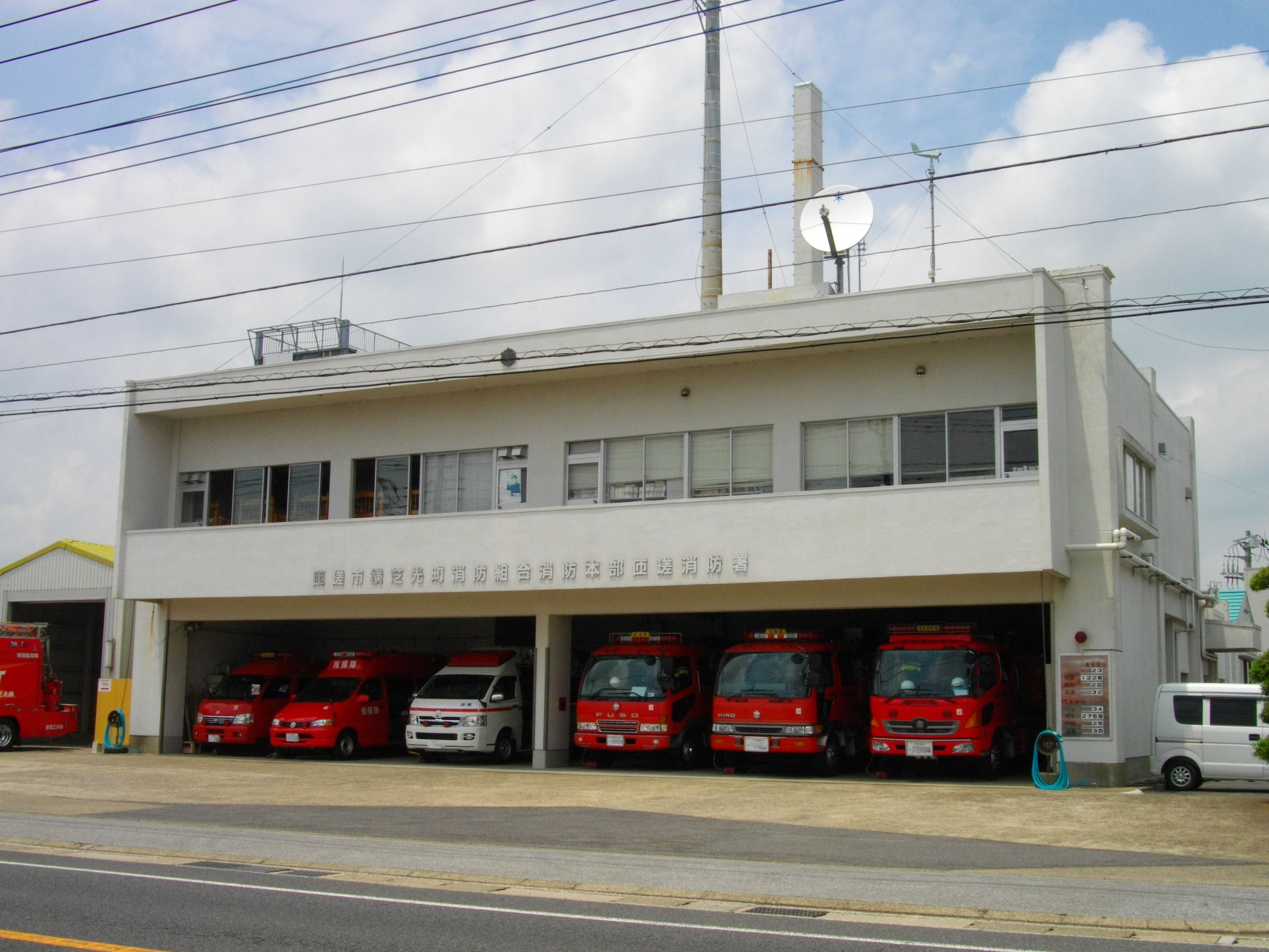 Sosa City Yokoshibahikari Town Firefighting Association Fire Department